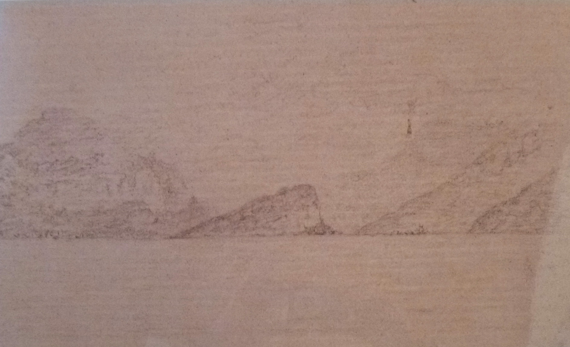 "Lake Garda with the resorts Riva del Garda, Monte Brione and Torbola", drawing by J.W. Goethe (11 september 1786); Stiftung Weimar Klassik und Kunstsammlungen; exhibition in the caste of Malcesine, Lake Garda, italy